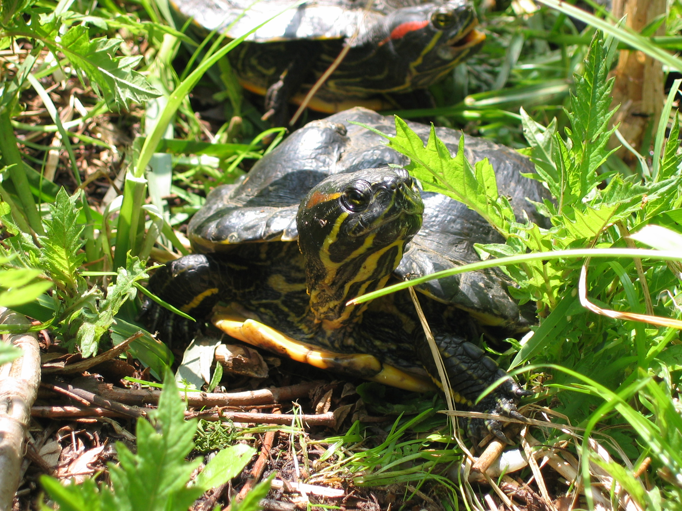 Red-eared slider (Trachemys scripta elegans), Northern Zoo (Netherlands).